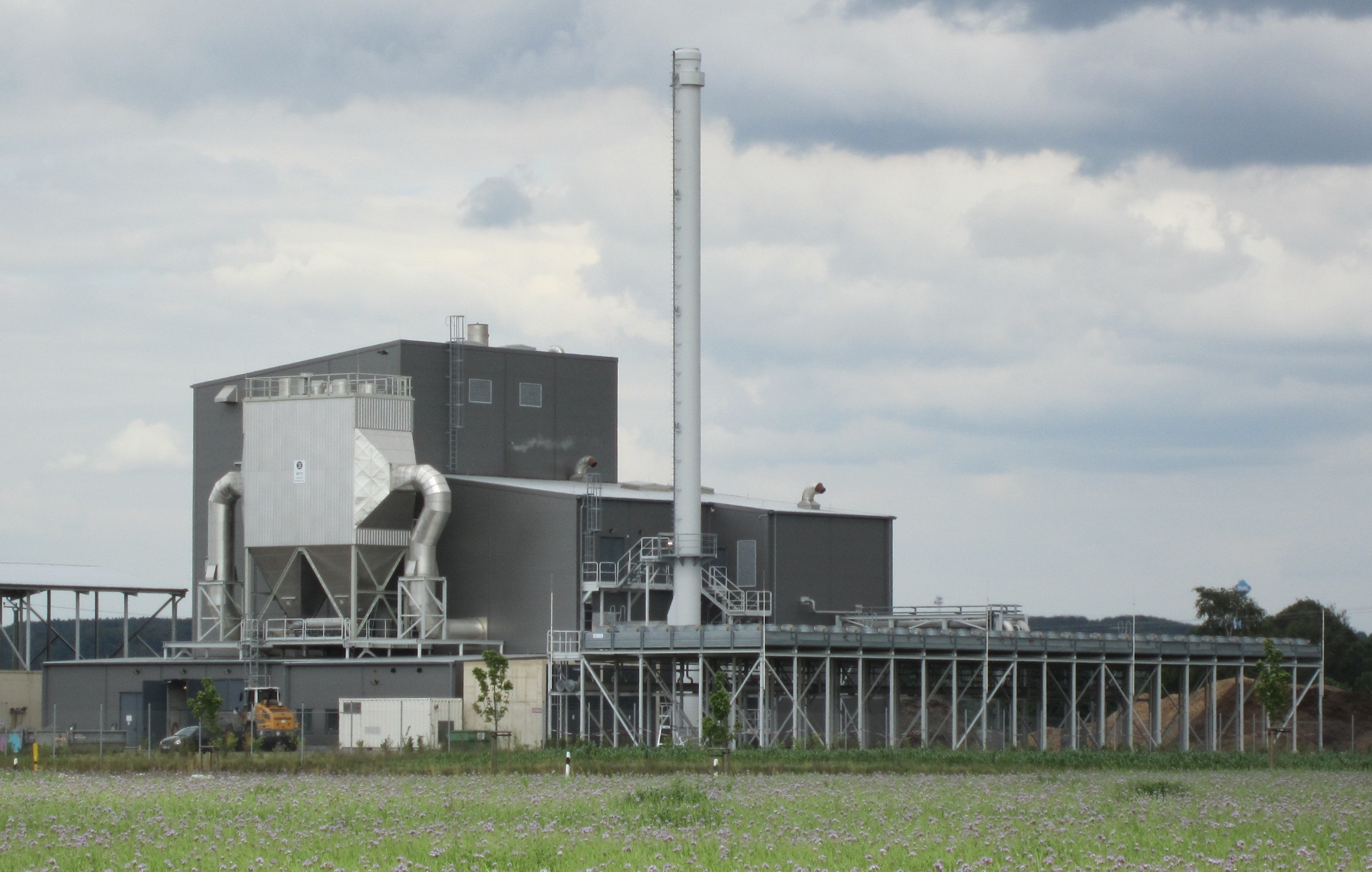 Wood-fired power plant in Niedersachsenpark (Rieste, Landkreis Osnabrück, Lower Saxony)